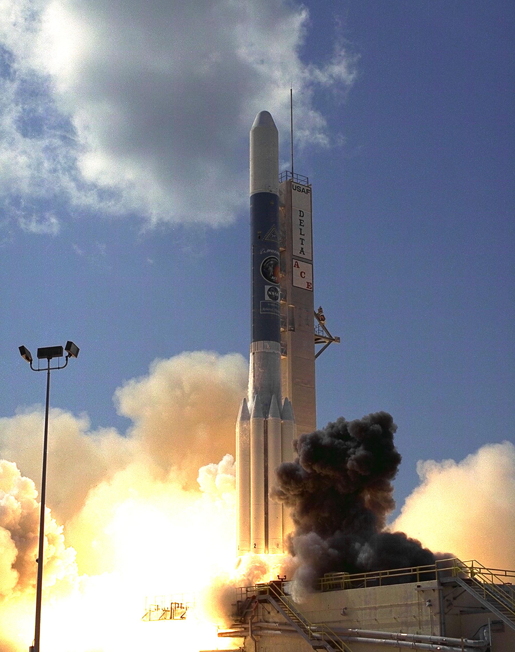 A Boeing Delta II expendable launch vehicle lifts off with NASA’s Advanced Composition Explorer (ACE) observatory at 10:39 a.m. EDT, on Aug. 25, 1997, from Launch Complex 17A, Cape Canaveral Air Station. This is the second Delta launch under the Boeing name and the first from Cape Canaveral. Launch was scrubbed one day by Air Force range safety personnel because two commercial fishing vessels were within the Delta’s launch danger area. The ACE spacecraft will study low-energy particles of solar origin and high-energy galactic particles on its one-million-mile journey. The collecting power of instruments aboard ACE is 10 to 1,000 times greater than anything previously flown to collect similar data by NASA. Study of these energetic particles may contribute to our understanding of the formation and evolution of the solar system. ACE has a two-year minimum mission lifetime and a goal of five years of service. ACE was built for NASA by the Johns Hopkins Applied Physics Laboratory and is managed by the Explorer Project Office at NASA's Goddard Space Flight Center. The lead scientific institution is the California Institute of Technology (Caltech) in Pasadena, Calif.